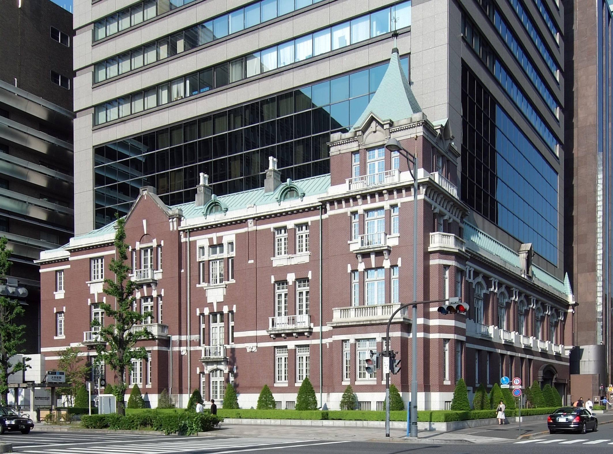 Tokyo Bankers Association (Former Tokyo Bank Meeting Place), Chiyoda-ku Tokyo Japan, designed by Kitaro Matsui in 1916.